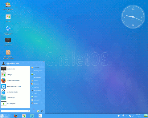 jutyaar